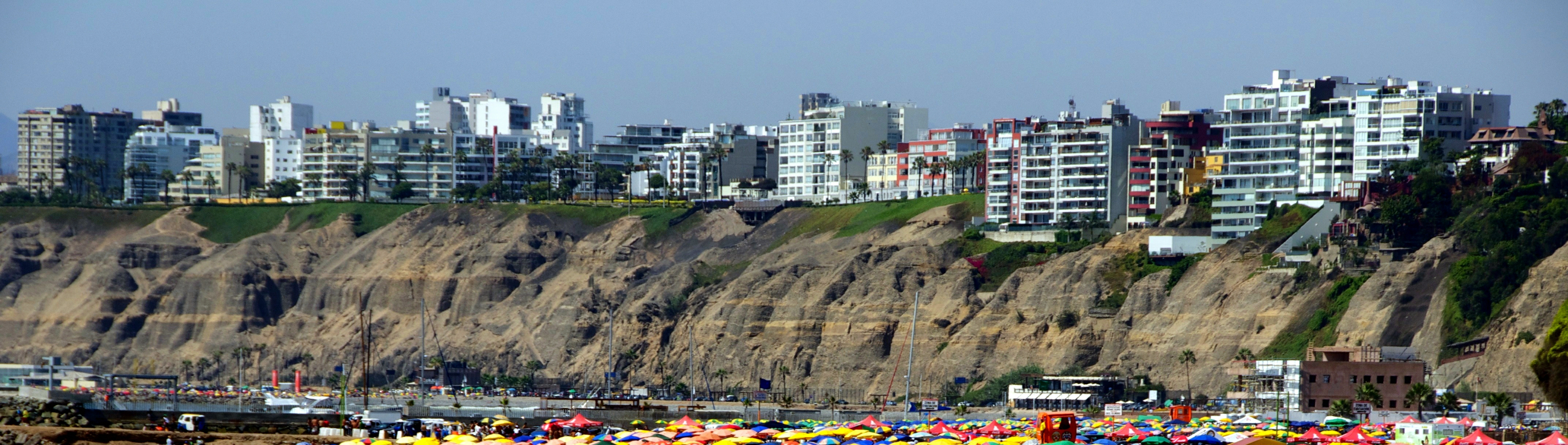 Barranco district (Lima Perú) cityscape.